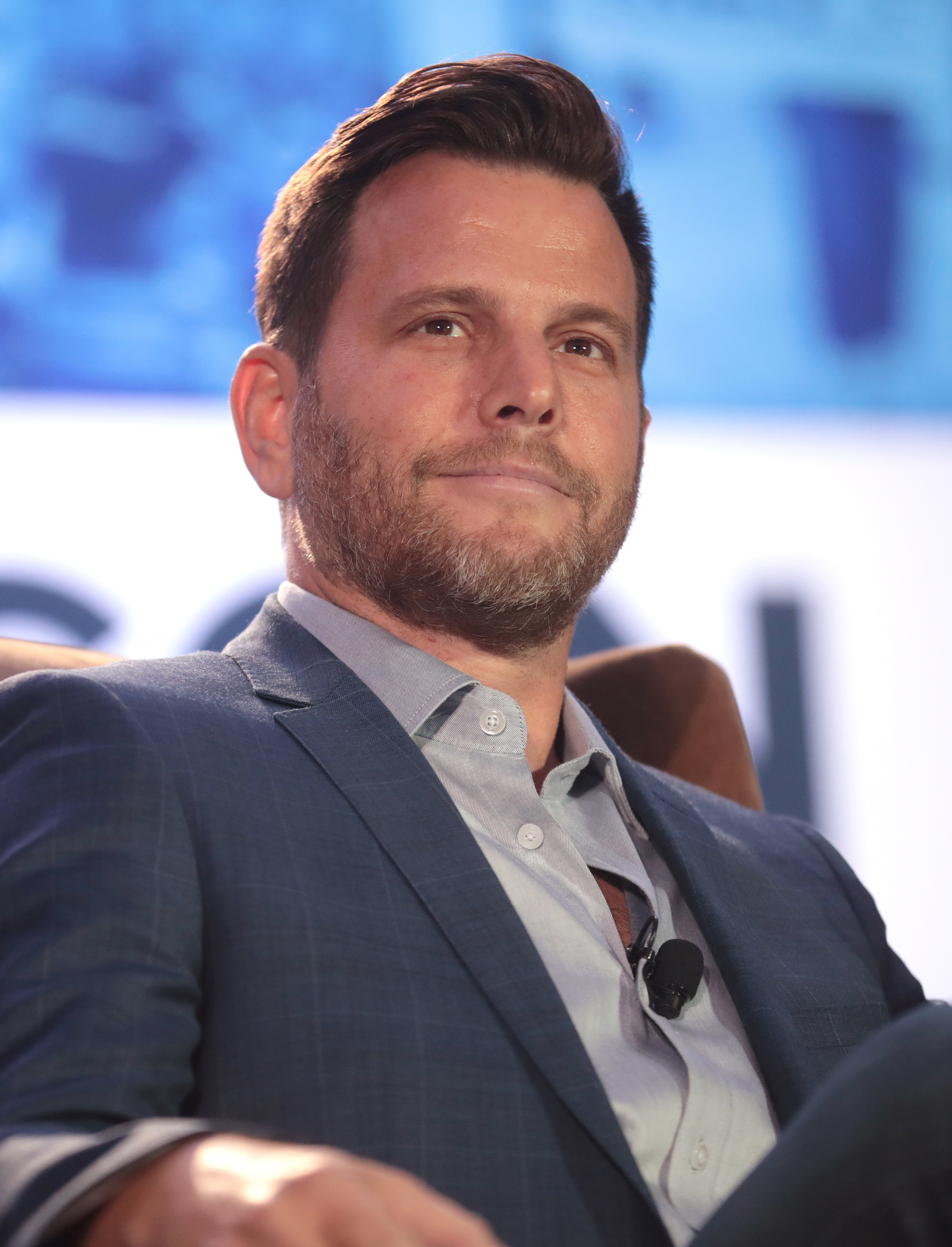 Dave Rubin speaking at an event in Austin, Texas.